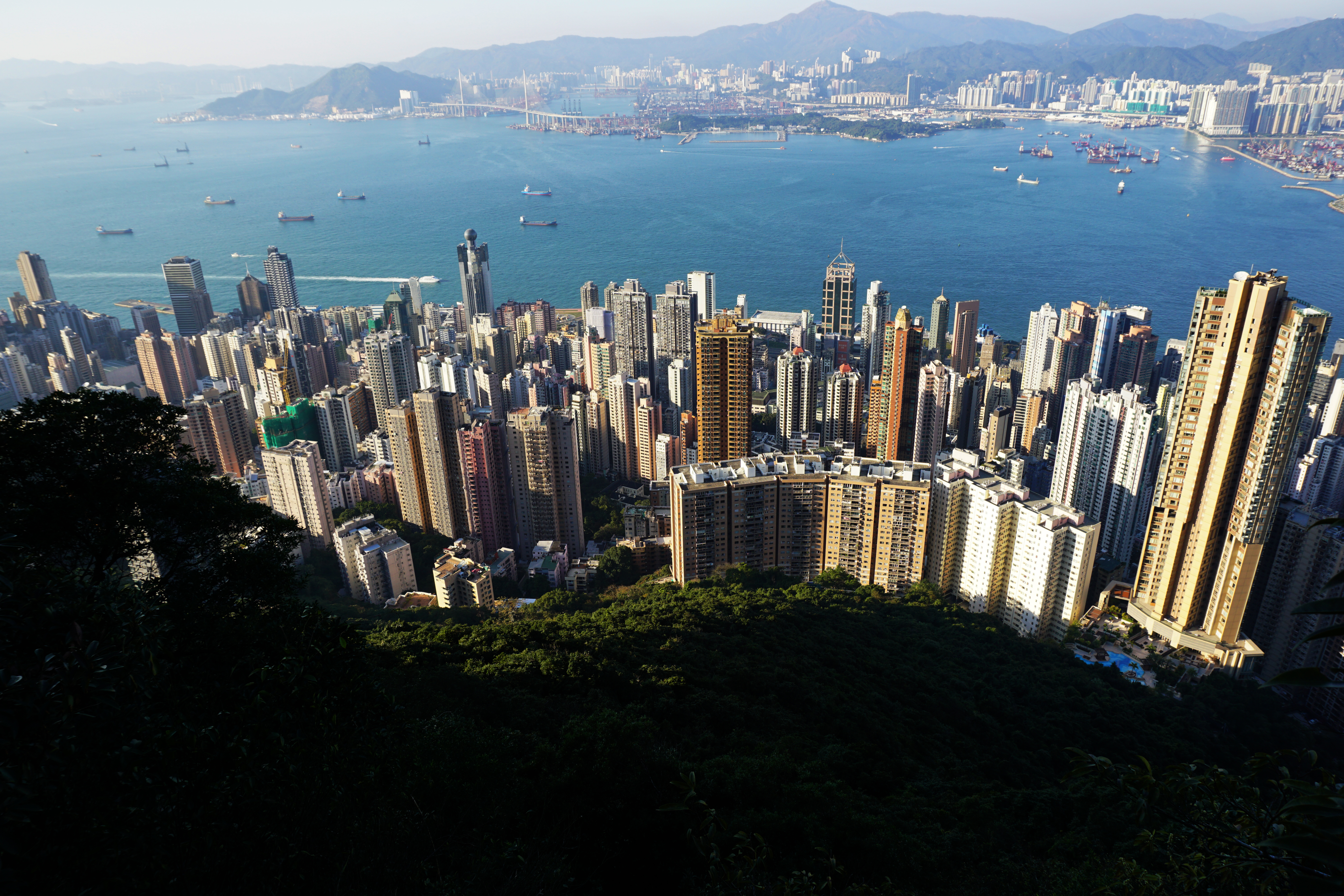 Sai Ying Pun in Hong Kong.